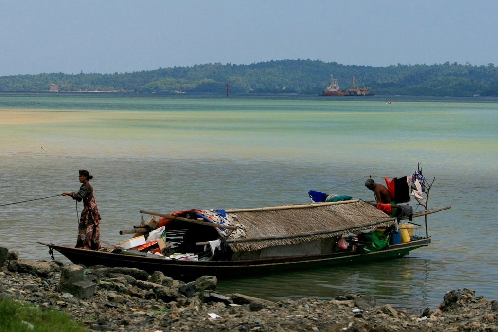 Woman Captain